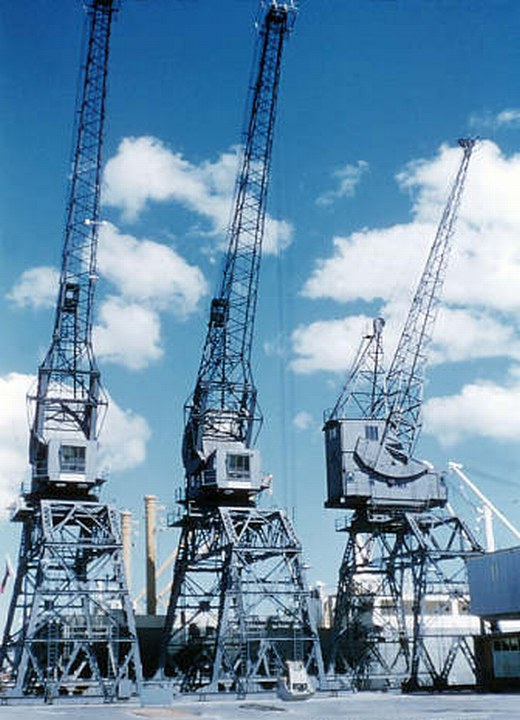 Cranes on Jellicoe Wharf in the Port of Auckland, Auckland City, New Zealand, 1960.